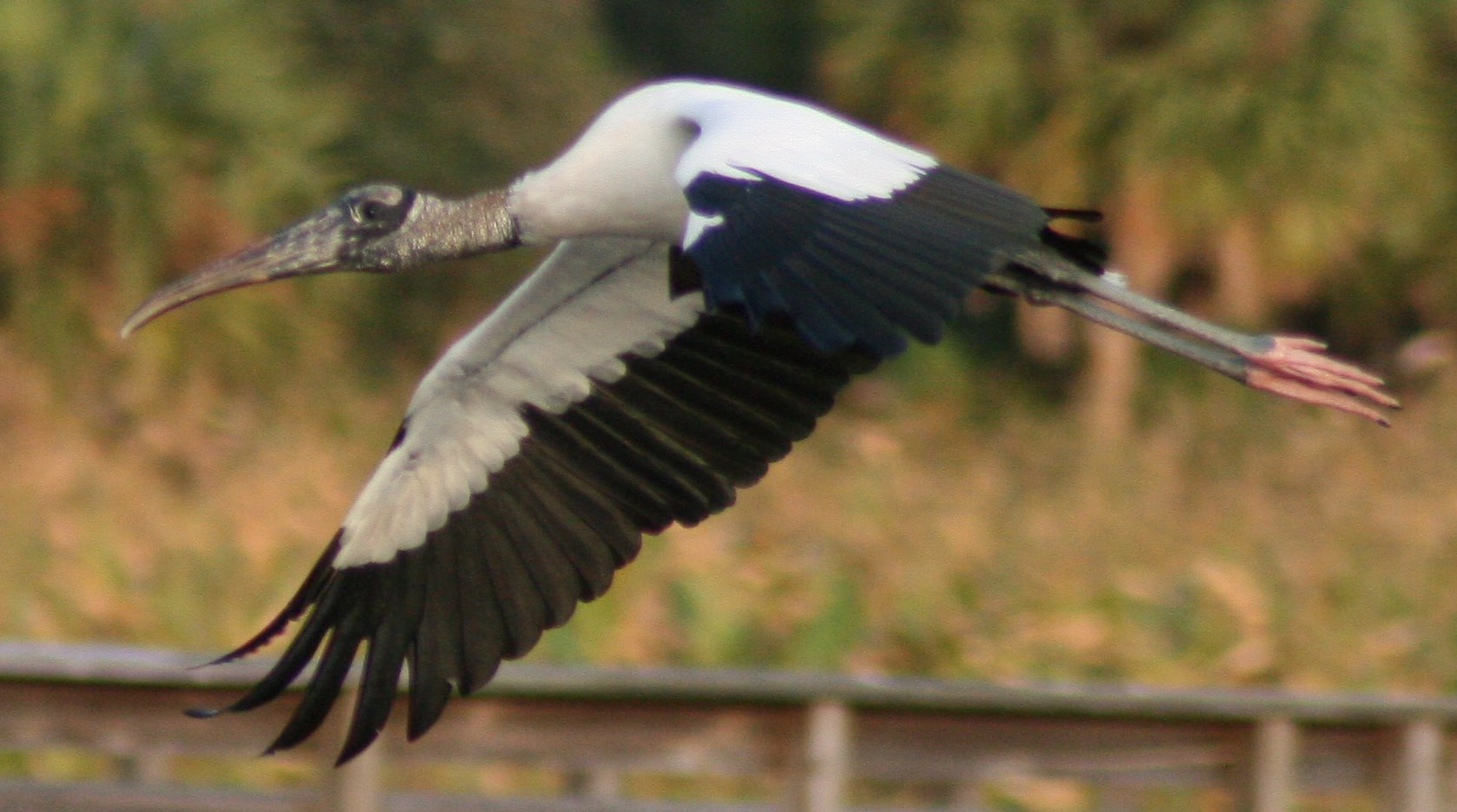 Wood stork (Mycteria americana) flying at Green Cay Wetlands near Boynton Beach, Florida (Southeastern Florida).